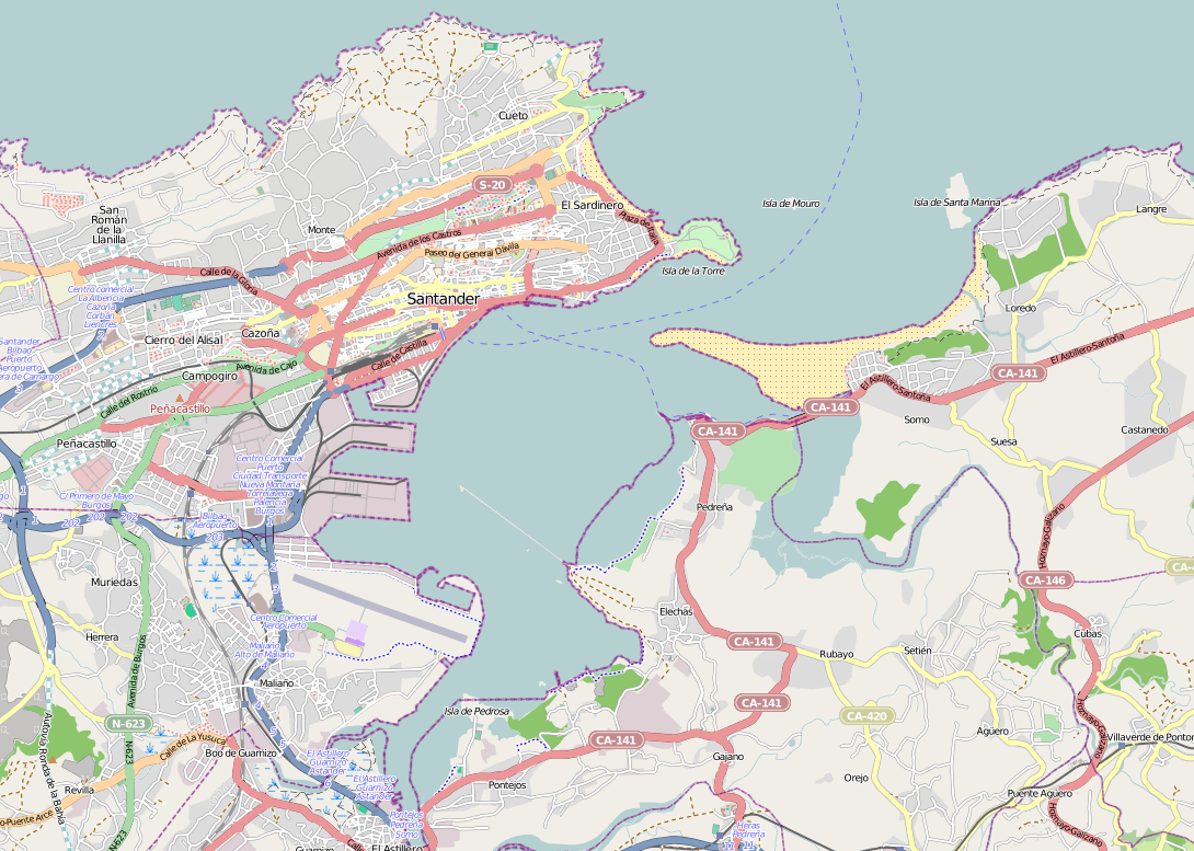 Map of Pedreña